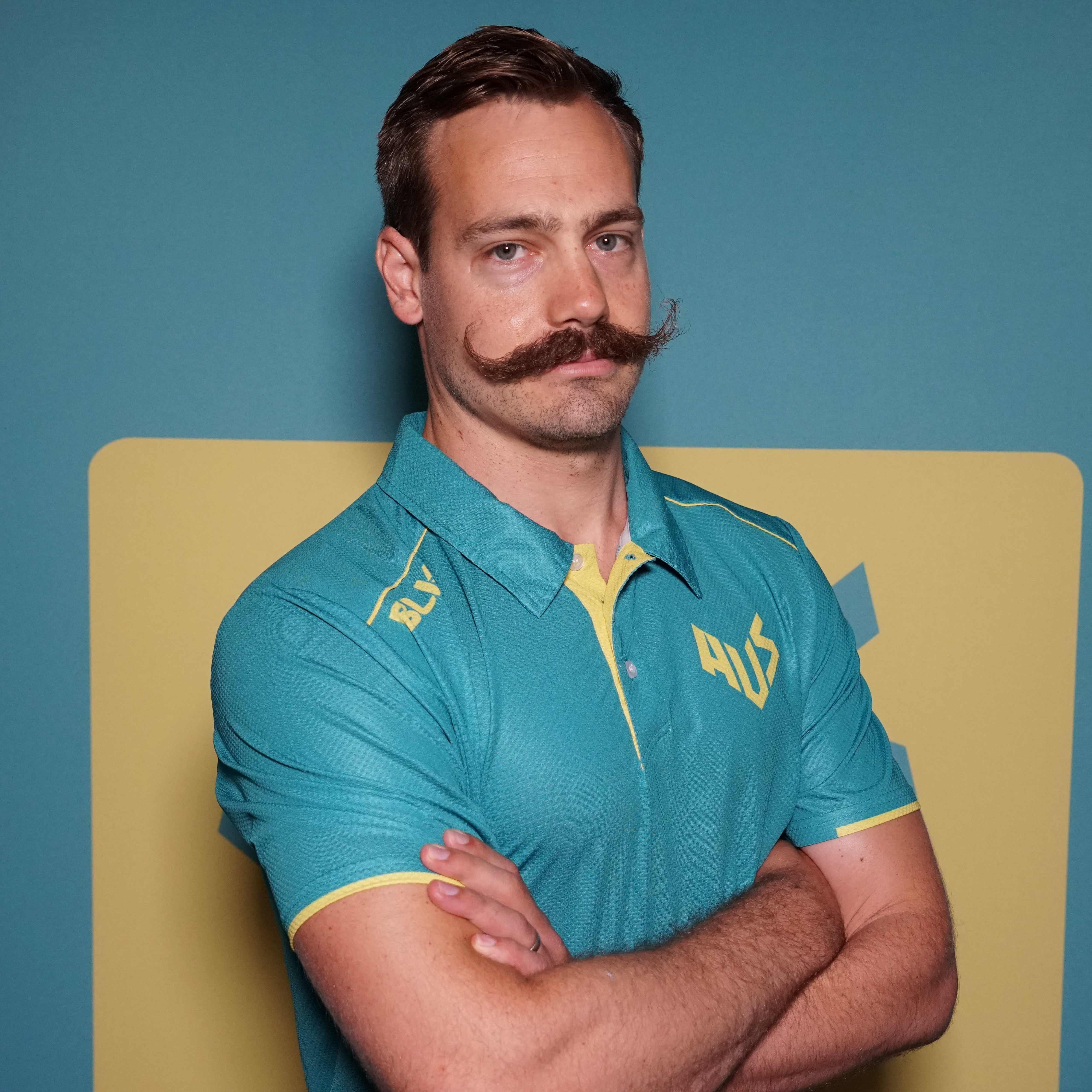 Evan OHanlon IPC World Championships 2019